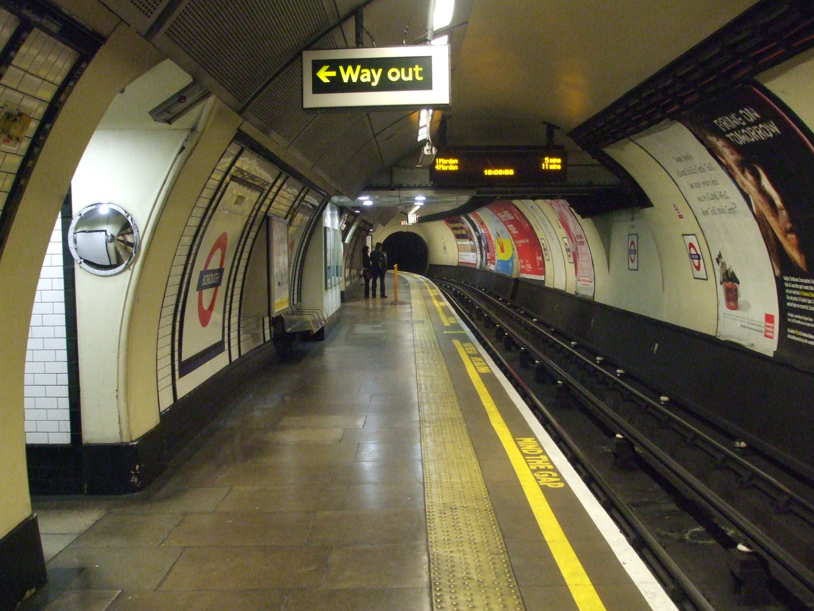 Borough tube station southbound platform looking north